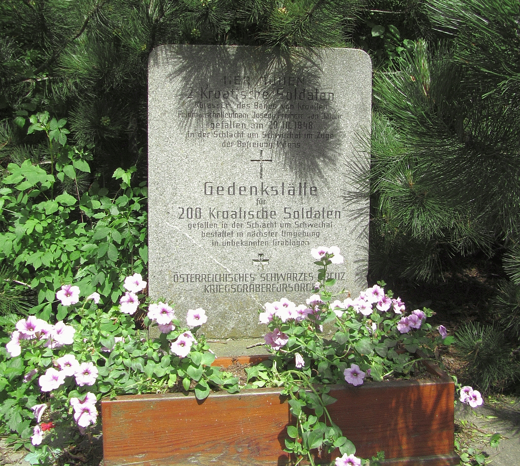 Memorial of Croatian Soldiers of the Battle of Schwechat 1848.